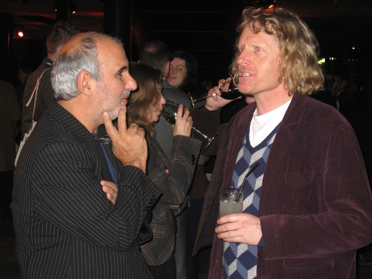 Alan Yentob and Grayson Perry at Private View of Gilbert & George Retrospective, Tate Modern